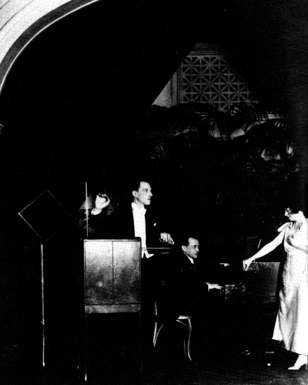 Leon Theremin performing a trio for theremin, voice and piano, c. 1924.